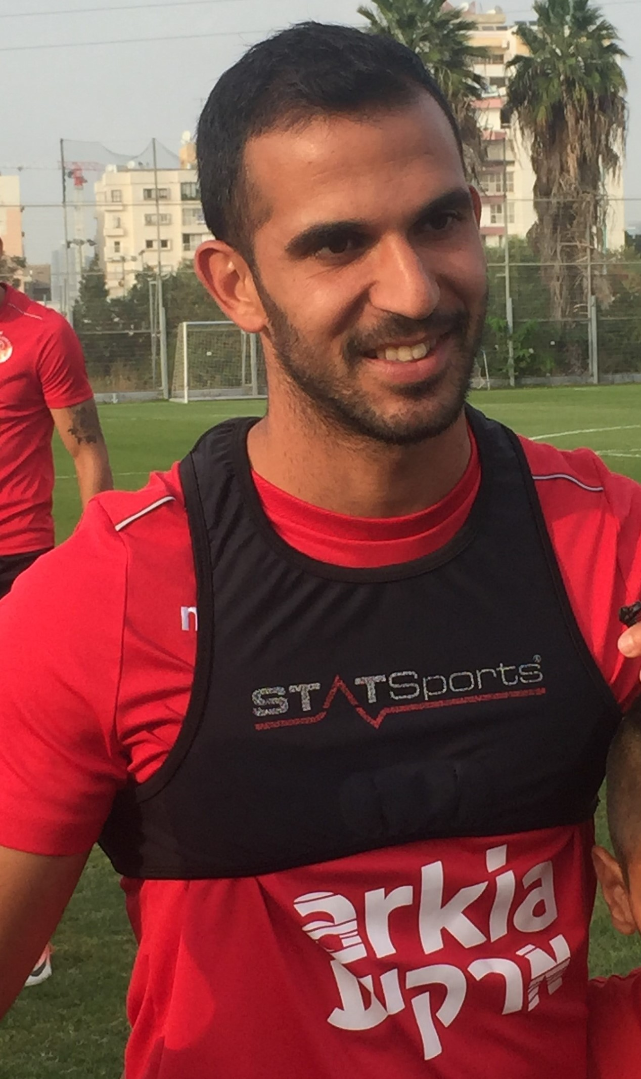 Hapoel Tel Aviv FC Player Orel Dgani, October 2018